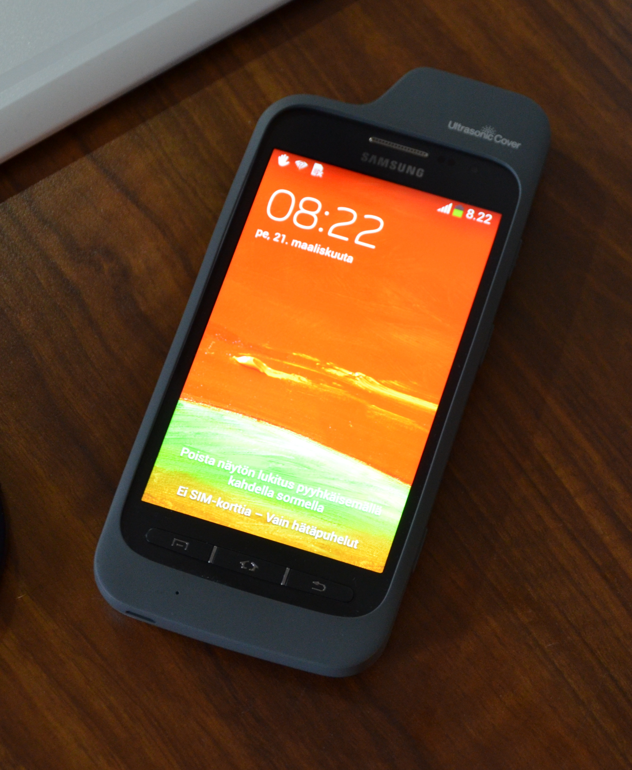 Top of Samsung Galaxy Core Advance with Ultrasonic Cover photographed in Interactive Technology in Education 2014 conference Hämeenlinna, Finland. Phone is turned on. Photo is cropped.